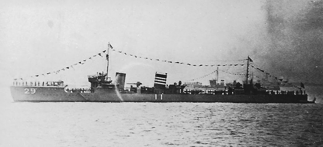 Imperial Japanese Navy destroyer Oite, Kamikaze-class, off Yokohama. Her name was "DD No.11" at this time.